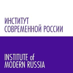 Institute of Modern Russia logo